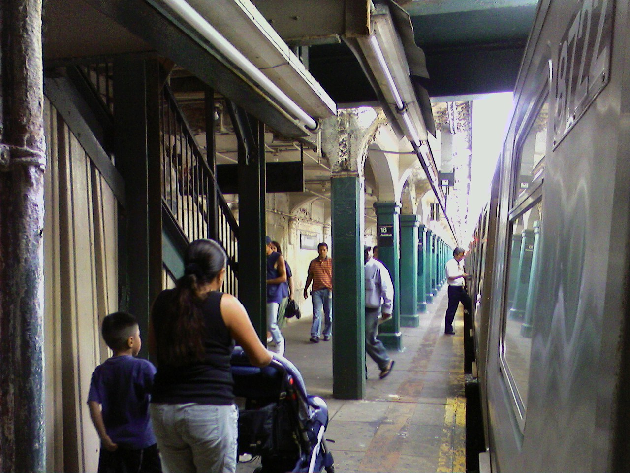 The 18th Avenue station as viewed from a Coney Island bound train.